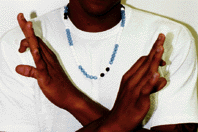 Crip handsign.